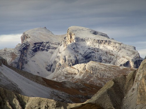 Birkenkofel (2922 m), South Tyrol